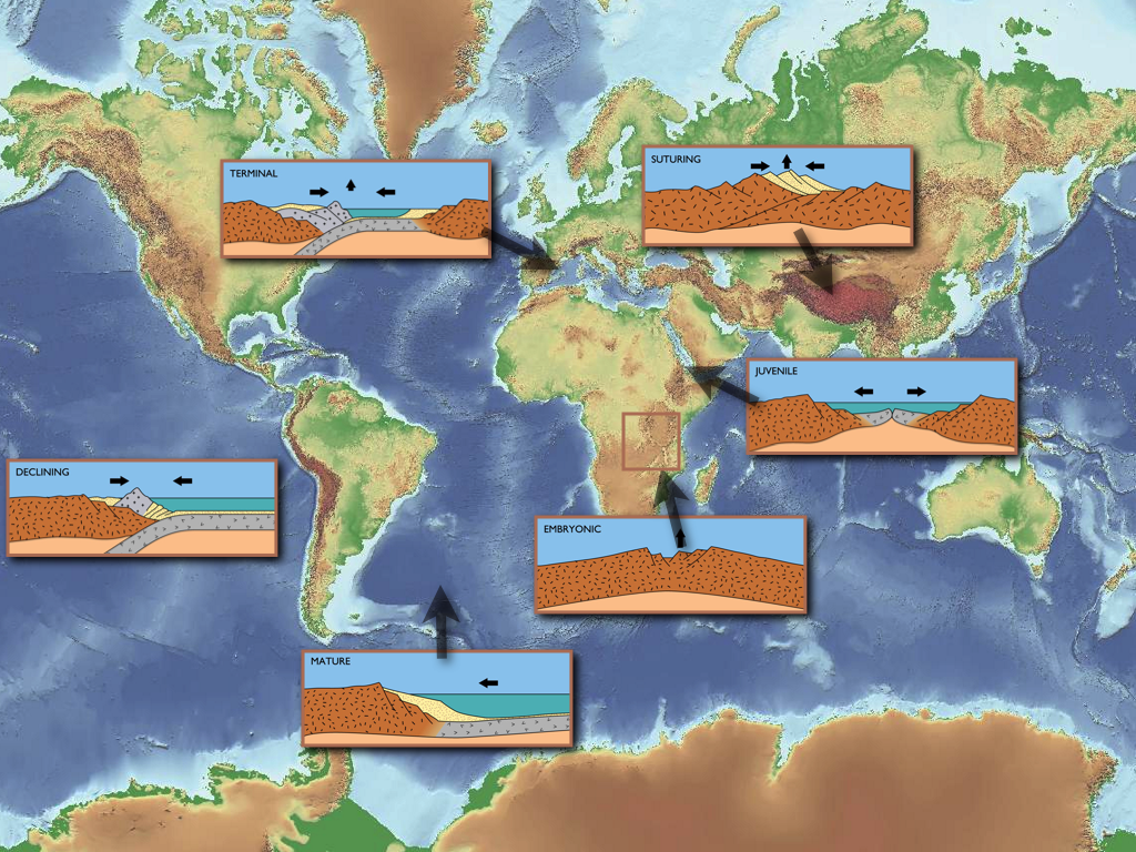 Stages of the Wilson-Cycle describing the birth, life and end of an ocean EMBRYONIC: break-up of the continental crust (north-east African rift system) JUVENILE: juvenile ocean has opened to a first connection to the world ocean (Red Sea) MATURE: mature stage (Atlantic Ocean) DECLINING: shrinking stage with subductions zones around (Pacific Ocean) TERMINAL: basins, mountain forming and earth quakes as a result from the collision SUTURING: build-up of a large mountain range during a continuing collision process